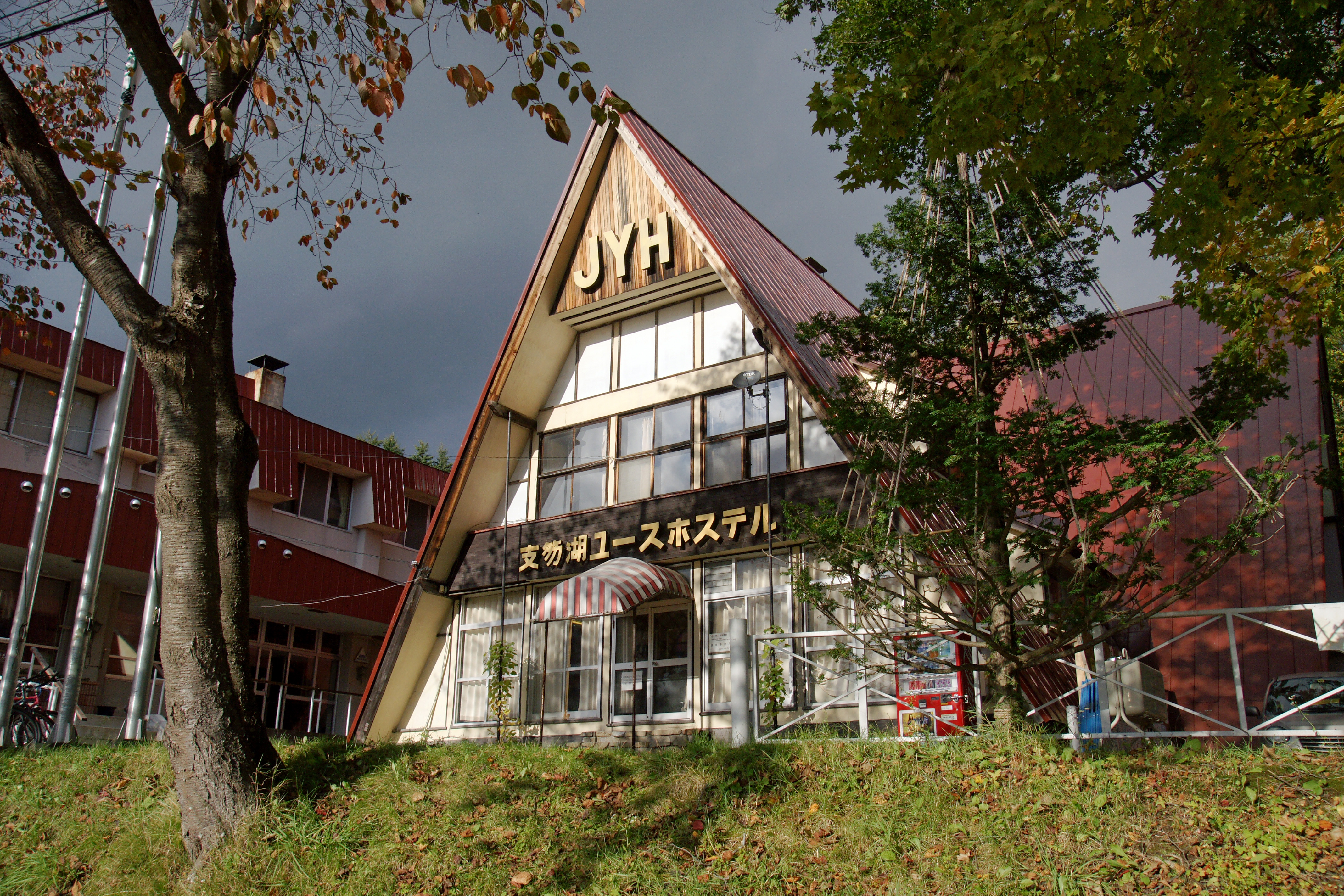 Lake Shikotsu, Chitose, Hokkaido prefecture, Japan